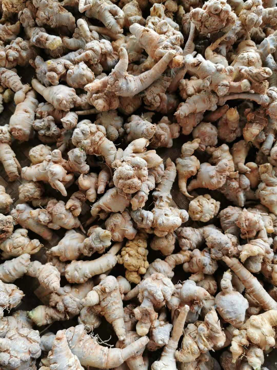 Root, medicinal part. Dongchuan District, Kunming, Yunnan Province, China.